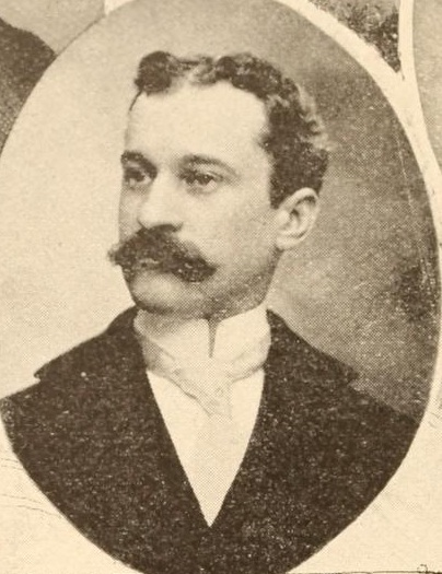 Portrait of New York state senator Richard H. Mitchell